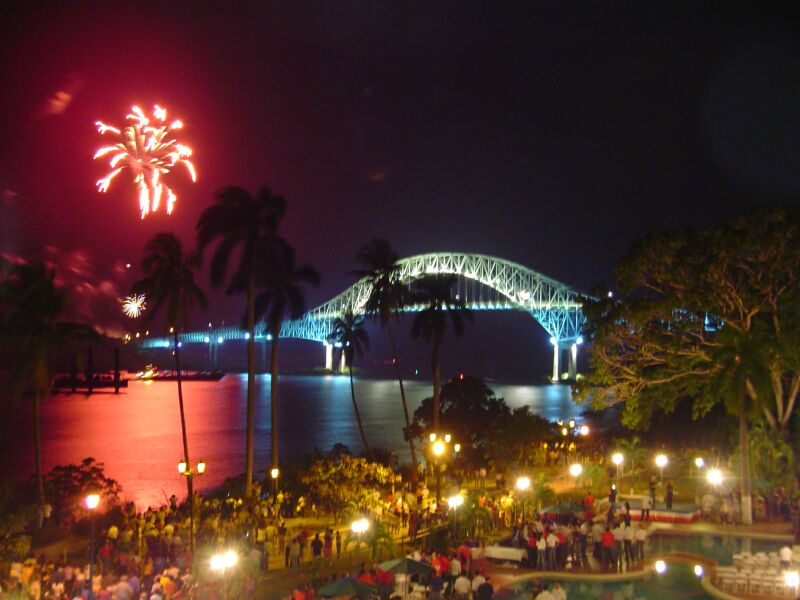 Bridge of the Americas, Panama City, Panama as seen from Country Inn & Suites Panama Canal